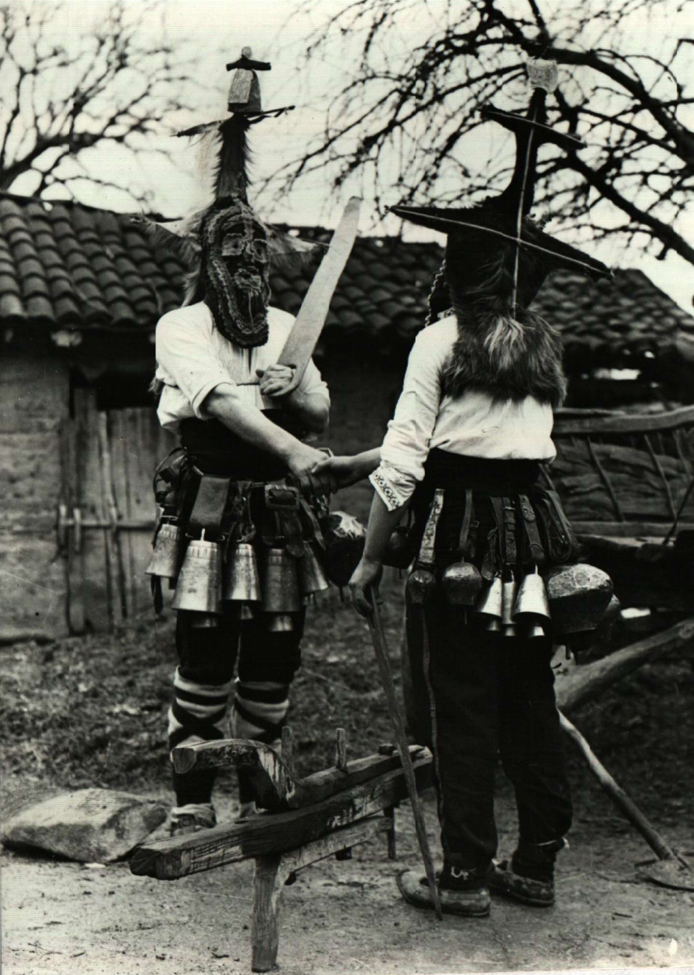 Kukeri from Turia, Bulgaria